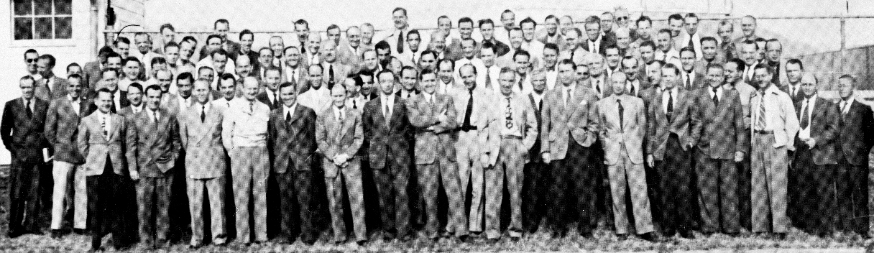 Group of 104 German rocket scientists in 1946, including Wernher von Braun[1] and Arthur Rudolph. The group had been subdivided into two sections: a smaller one at White Sands Proving Grounds for test launches and the larger at Fort Bliss for research.[1] Many had worked to develop the V-2 Rocket at Peenemünde Germany and came to the U.S. after World War II, subsequently working on various rockets including the Explorer 1 Space rocket and the Saturn (rocket) at NASA. Titles and Captions in Published Books Von Braun Rocket Team at Fort Bliss, Texas[2] Members of the German rocket team who worked on rockets for Army Ordnance under Paperclip are shown at White Sands Proving Ground, New Mexico, in 1946[2] Peenemünde's core personnel is reassembled at White Sands, New Mexico, in 1946.[3] Von Braun group at White Sands Proving Ground, 1946[4]